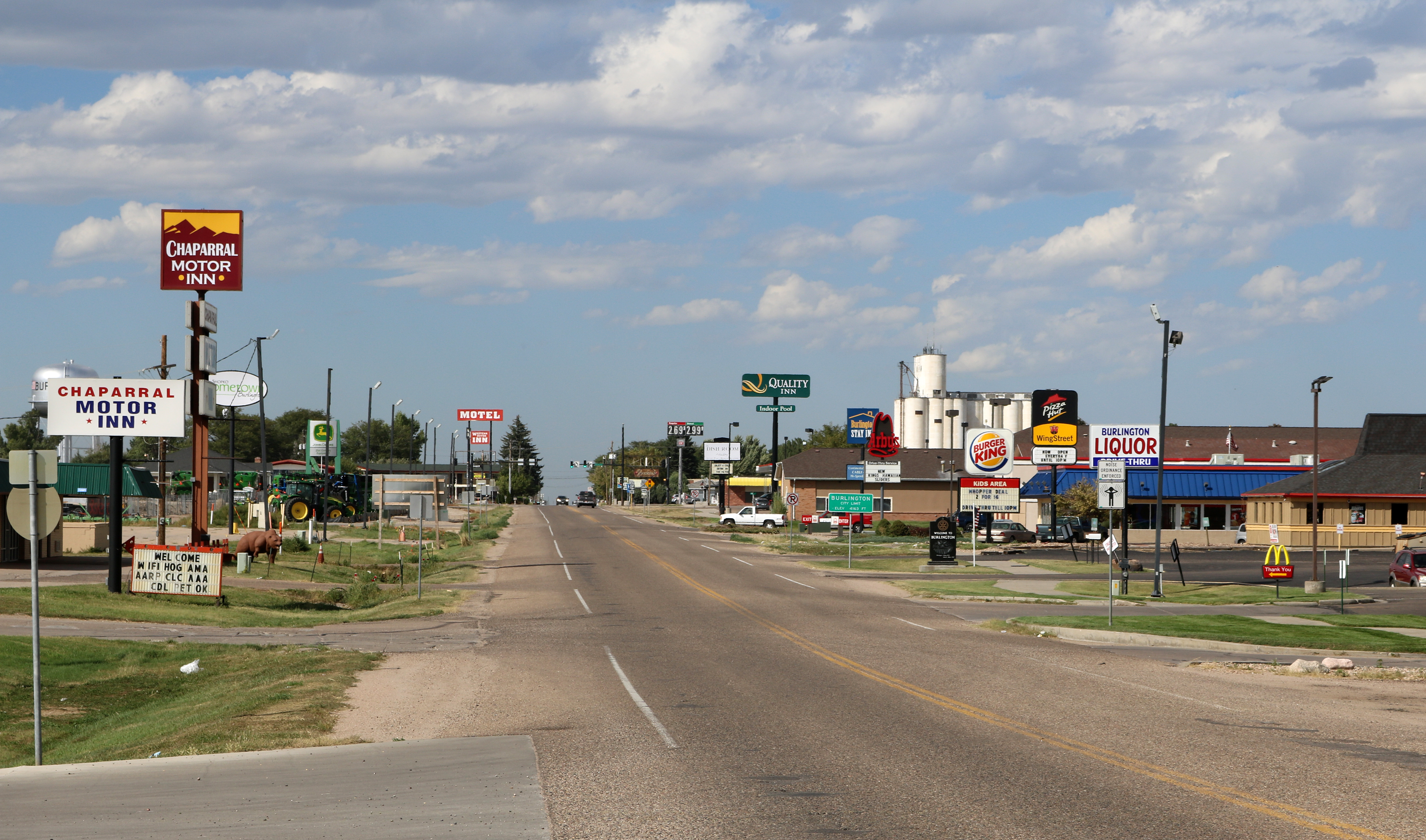 Looking north along South Lincoln Street in Burlington, Colorado.